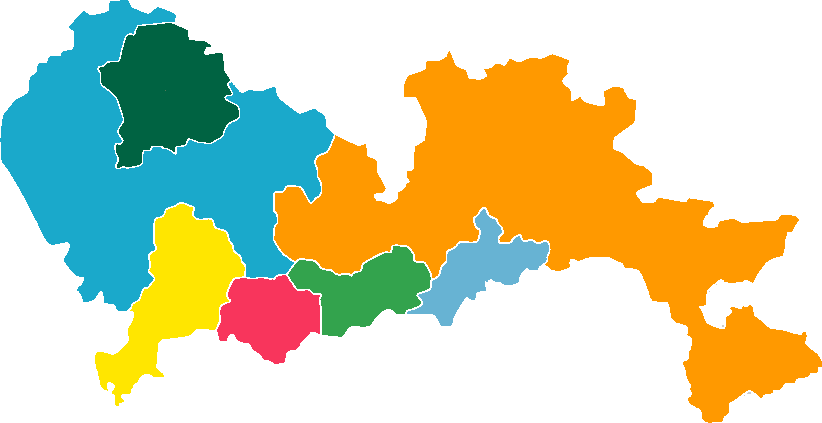 Subdivision of Shenzhen